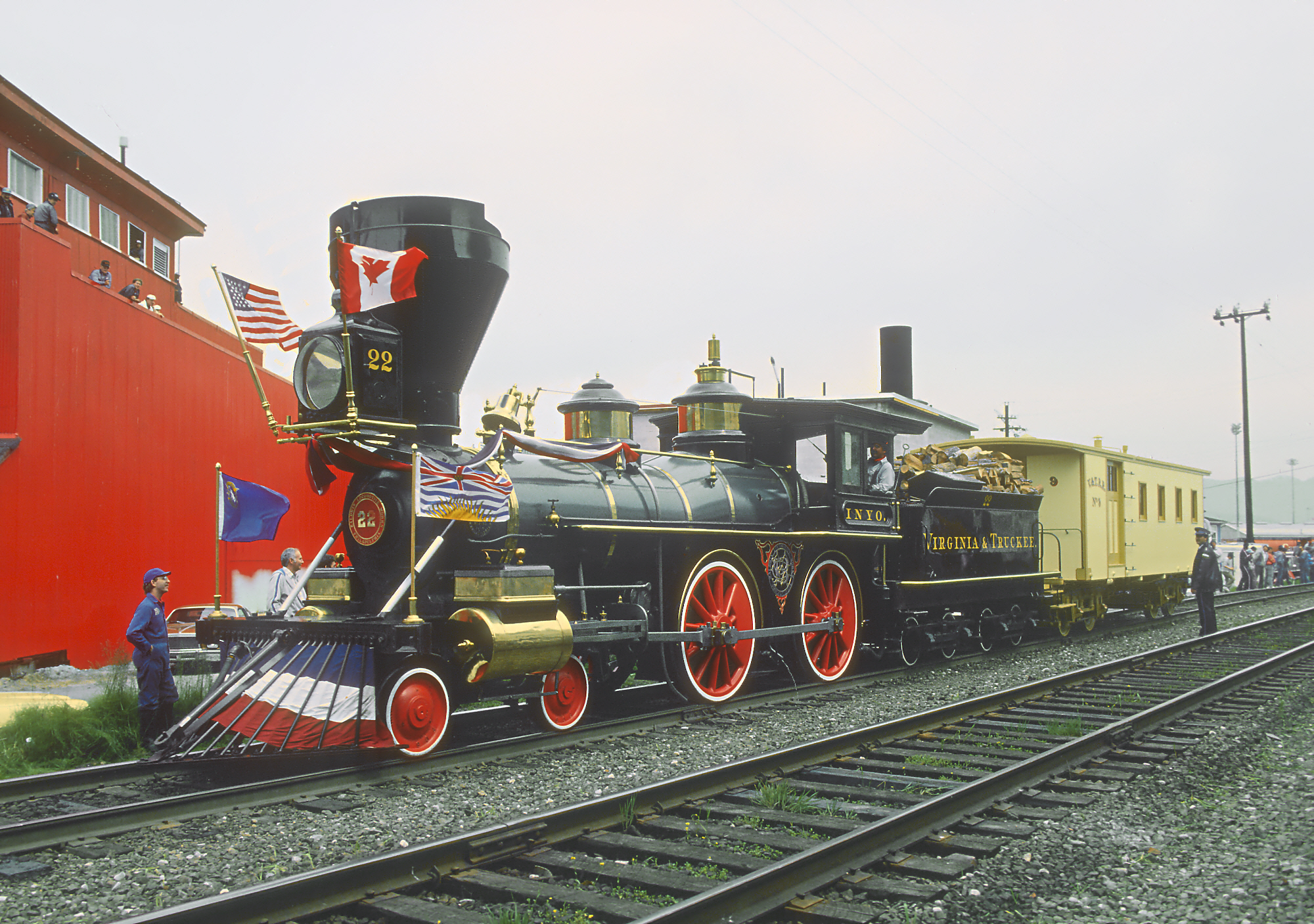 In the Steam Expo Parade of Canadian and U.S. steam locomotives at the 1986 World Exposition on Transportation and Communication (Expo 86), a World's Fair held in Vancouver, BC, Canada. This is one of 17 photos. A Roger Puta Photograph